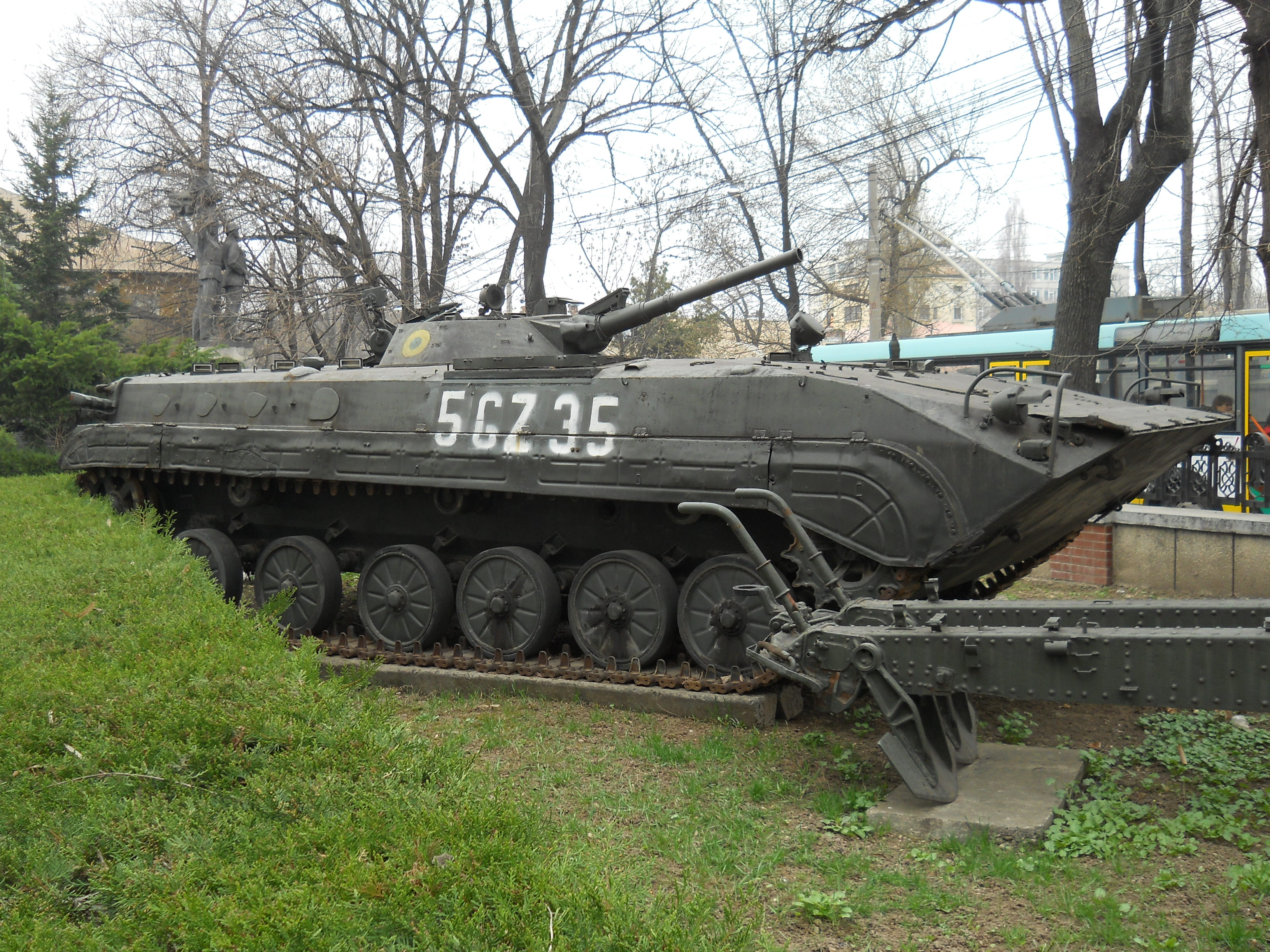 MLI-84 IFV on display at "King Ferdinand" National Military Museum in Bucharest.